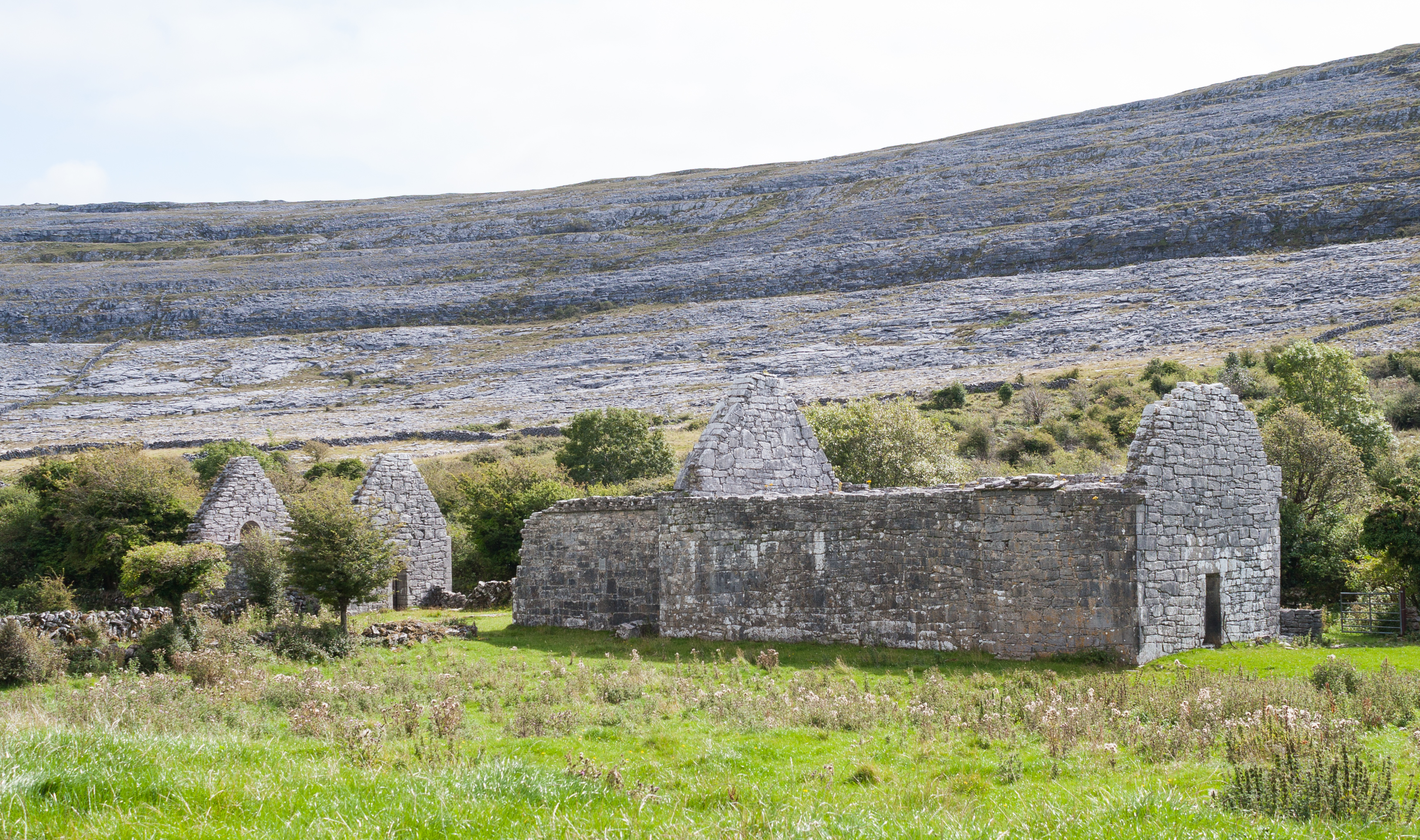 North-west view of Middle and West Churches.